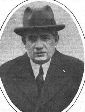 Bogdan Marković (1880–1938), Serbian politician and economist